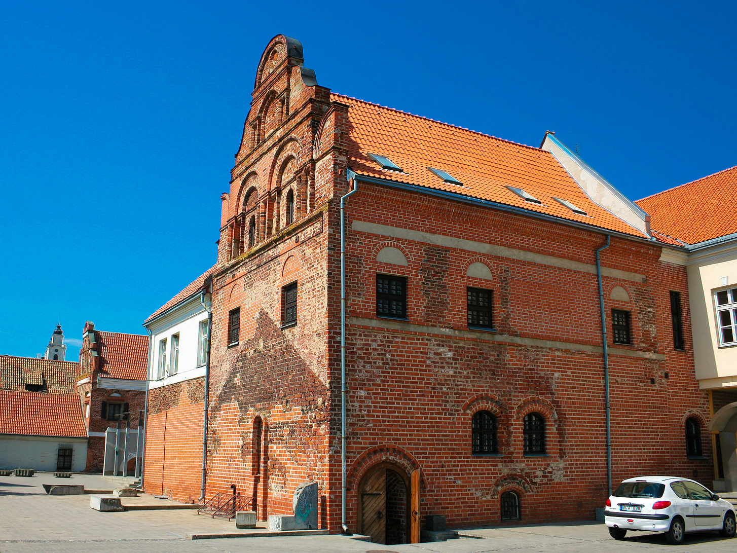 Napoleon's house in Kaunas, Gothic style.